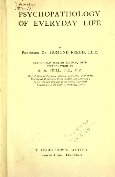 The Psychopathology of Everyday Life a book written by Sigmund Freud first page!